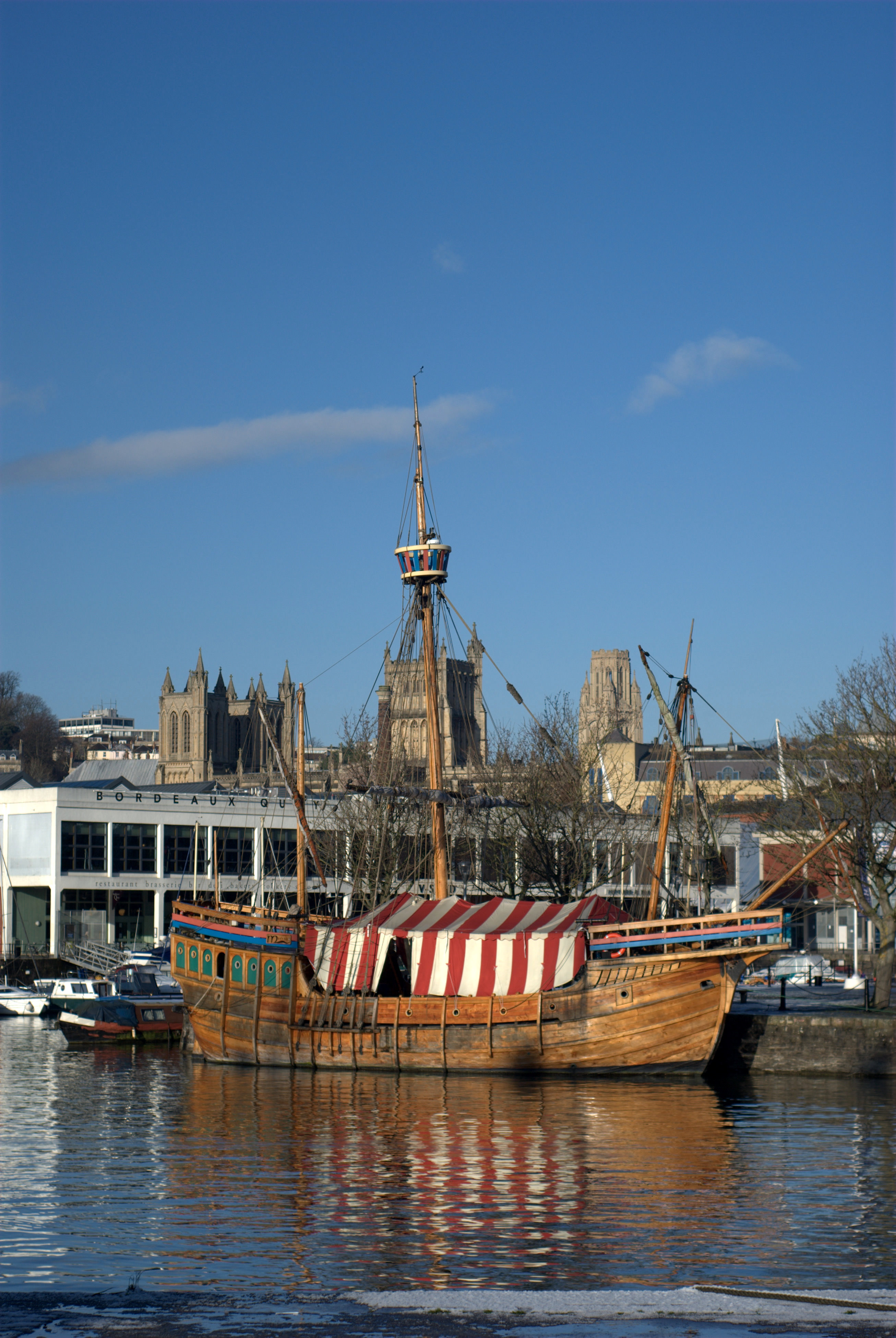 The Matthew, a replica of a ship of the same name captained by John Cabot, moored in Bristol, England